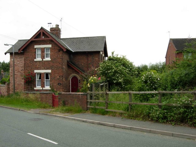 Denby Station House, Smithy Houses. This was the site of Denby Station (actually in Smithy Houses, some distance from Denby village). The station closed to passengers in 1930, but traces of the platform are still visible in the undergrowth.